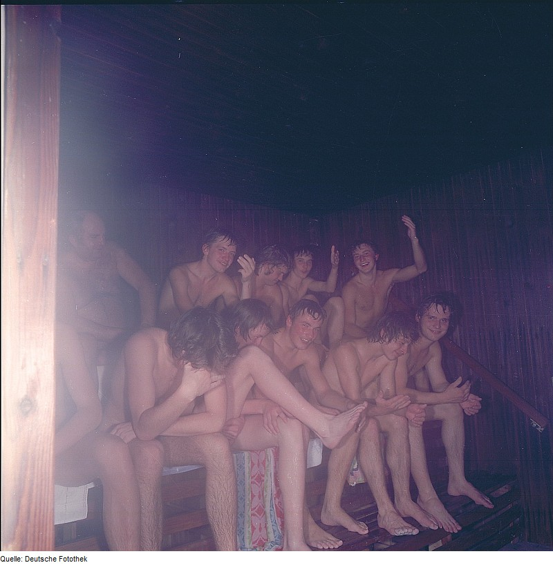 Original image description from the Deutsche Fotothek Sauna